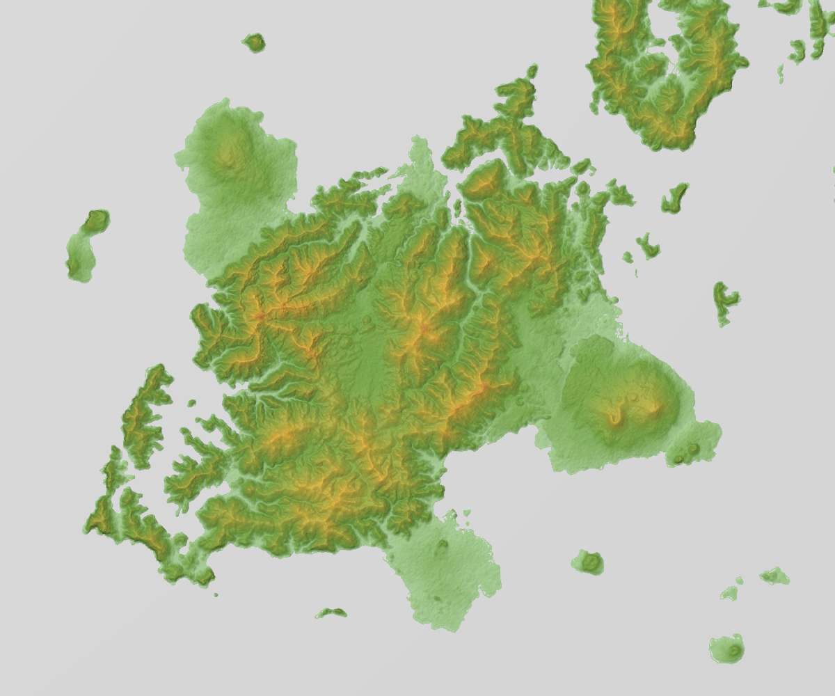 Fukuejima and Fukue Volcano Group in Nagasaki Prefecture, Japan.